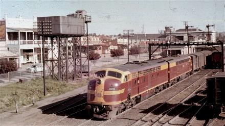 4202 and 4206 head north from Junee with the Inter-capital Daylight Express